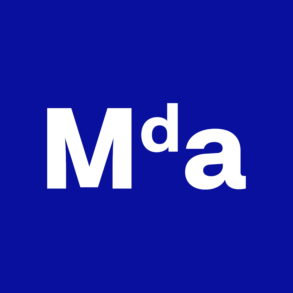 2019 logo of the Masaryk Democratic Academy.